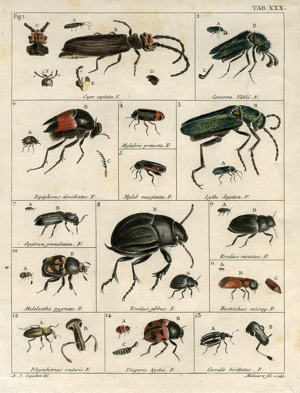 Plate from Illustratio iconographica insectorum quae in musaeis parisinis observavit et in lucem edidit Joh. Christ. Fabricius, praemissis ejusdem descriptionibus; accedunt species plurimae, vel minus aut nondum cognitae, Paris: P. Didot